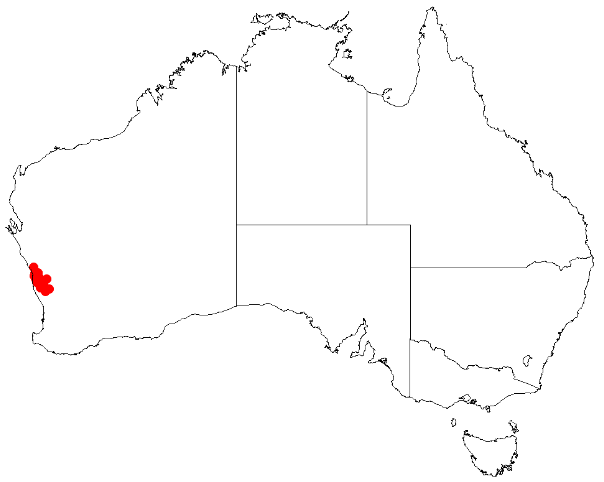 Desmocladus semiplanus Occurrence data downloaded from Australasian Virtual Herbarium on 24 January 2019 using